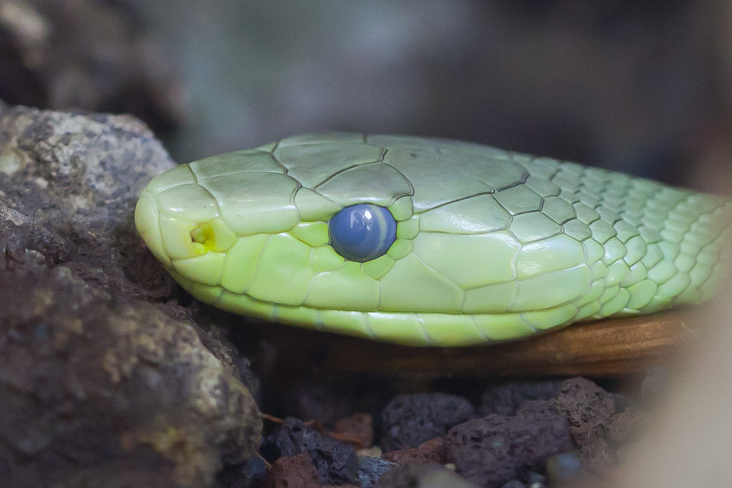 Eastern green mamba (Dendroaspis angusticeps), Tierpark Hellabrunn, Munich, Germany